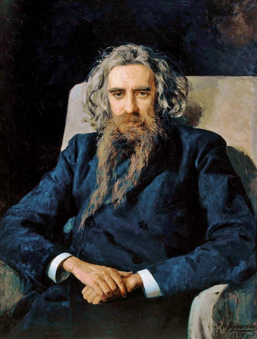 Portrait of philosopher Vladimir Soloviev